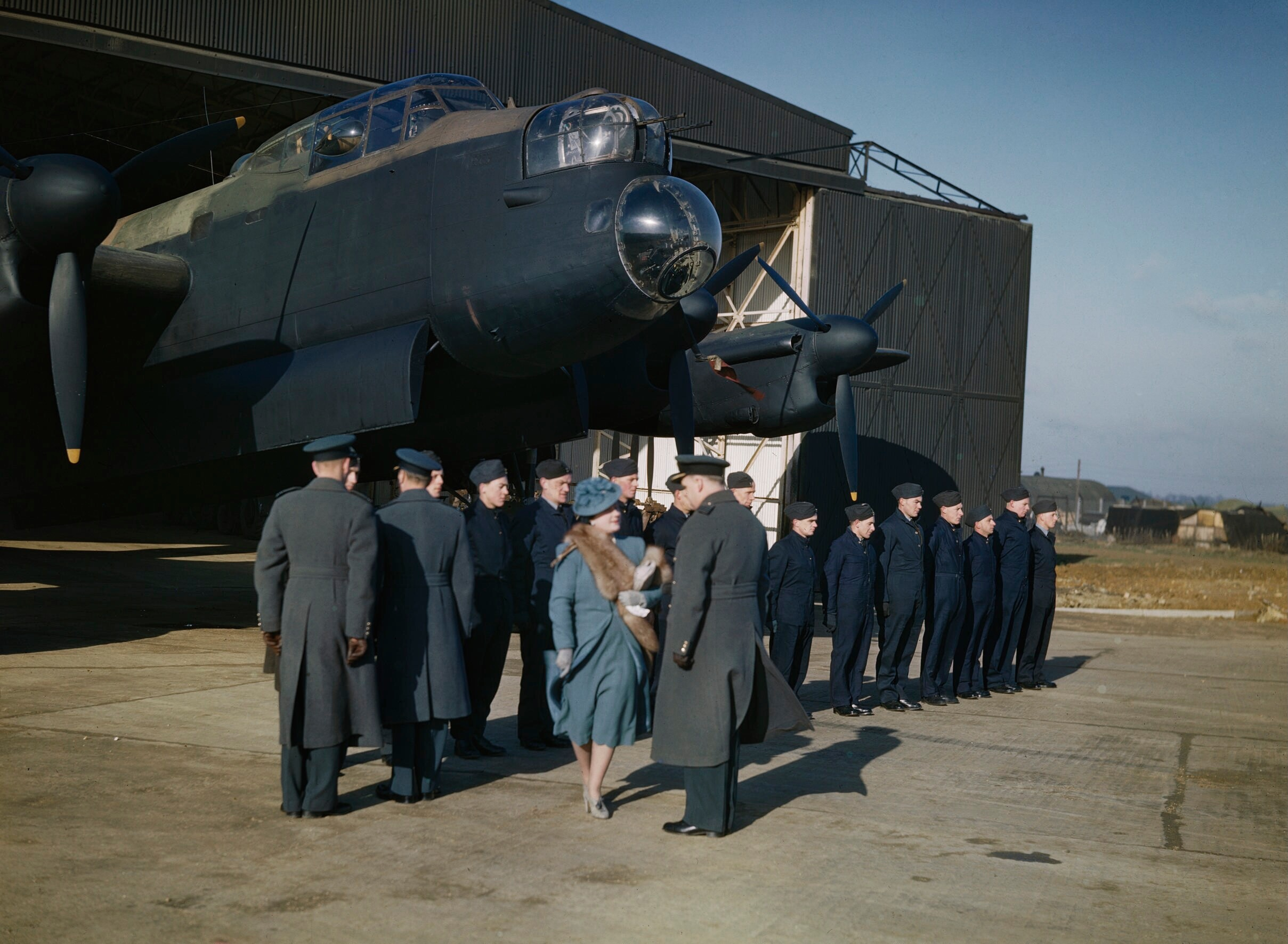 IWM caption : HM Queen Elizabeth inspecting flight and ground crews on a visit to Warboys, a station of No 8 Pathfinder Group. An Avro Lancaster of No 156 Squadron, Royal Air Force is seen in a T2 hangar.